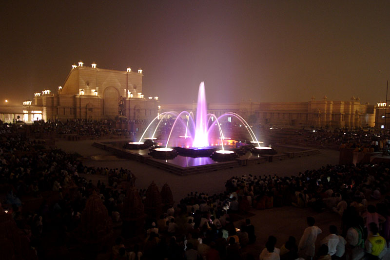 A musical fountain at the Akshardham monument in Delhi, India